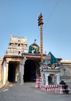 Tirupurambiam satchinathar temple திருப்புறம்பியம் சாட்சிநாதேஸ்வரர் கோயில்